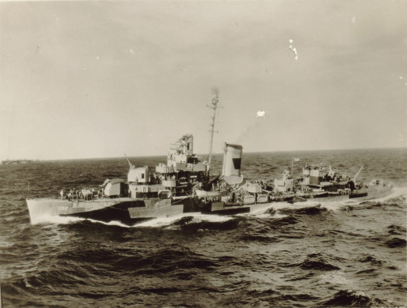 The U.S. Navy destroyer USS Patterson (DD-392) underway between March 1944 and mid-1945, while she was painted in Camouflage Measure 31 Design 2C. Note the escort carrier in the background.